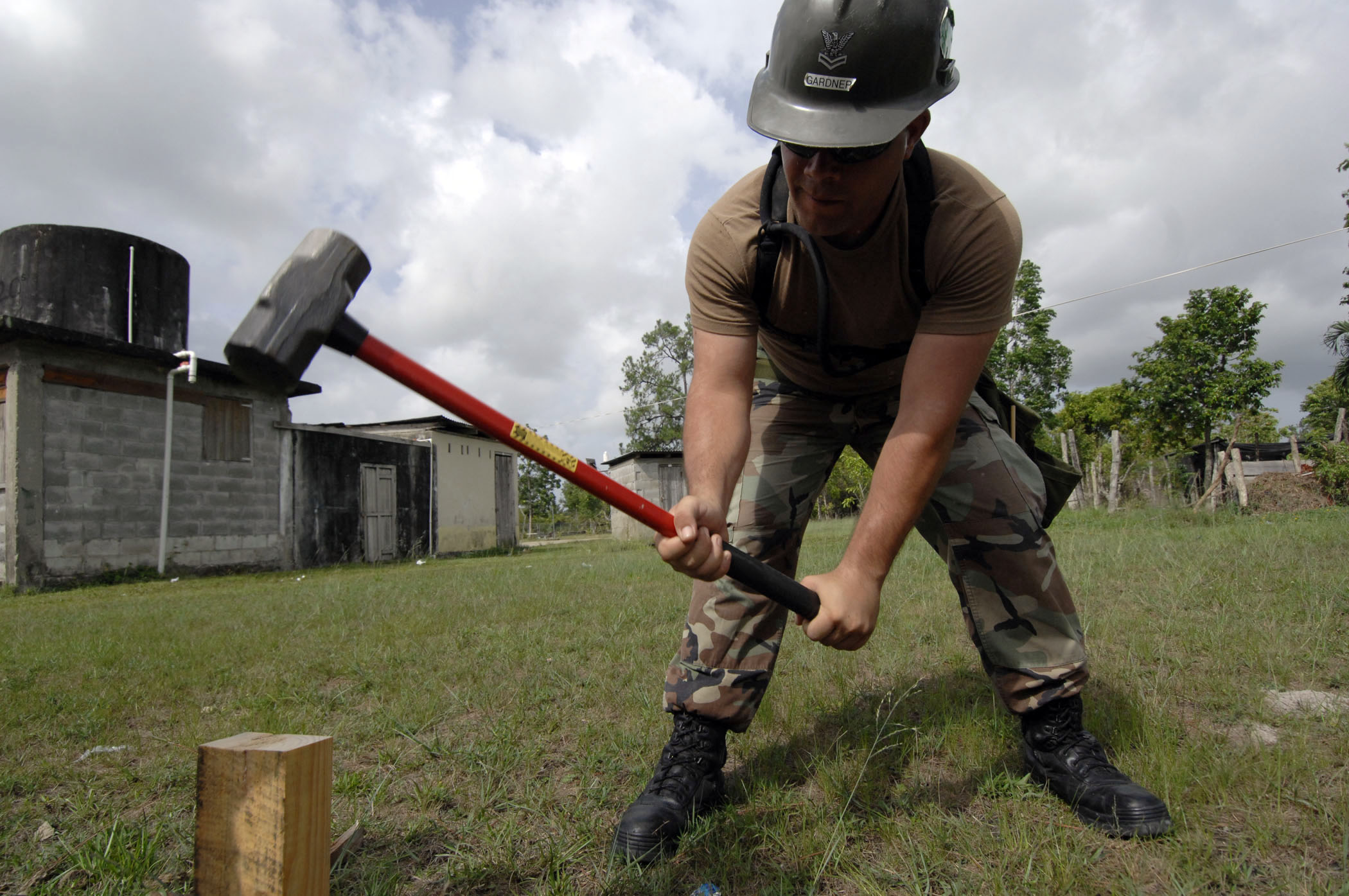 BELIZE (June 24, 2007) - Utilitiesman 2nd Class Craig Gardener attached to Construction Battalion Maintenance Unit (CBMU) 202, hammers a board for a sidewalk at Belize Rural High School, Double Head Cabbage. CBMU-202 is attached to the Military Sealift Command hospital ship USNS Comfort (T-AH 20). Comfort is on a four-month humanitarian deployment to Latin America and the Caribbean region to provide medical treatment to approximately 85,000 patients in a dozen countries. While deployed, Comfort is under the operational control of U.S. Naval Forces Southern Command and tactical control of Destroyer Squadron 24. U.S. Navy photo by Mass Communication Specialist 2nd Class Joan E. Kretschmer (RELEASED)